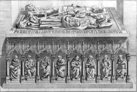 Kenotaph of Rudolf IV, Duke of Austria and Catherine of Bohemia